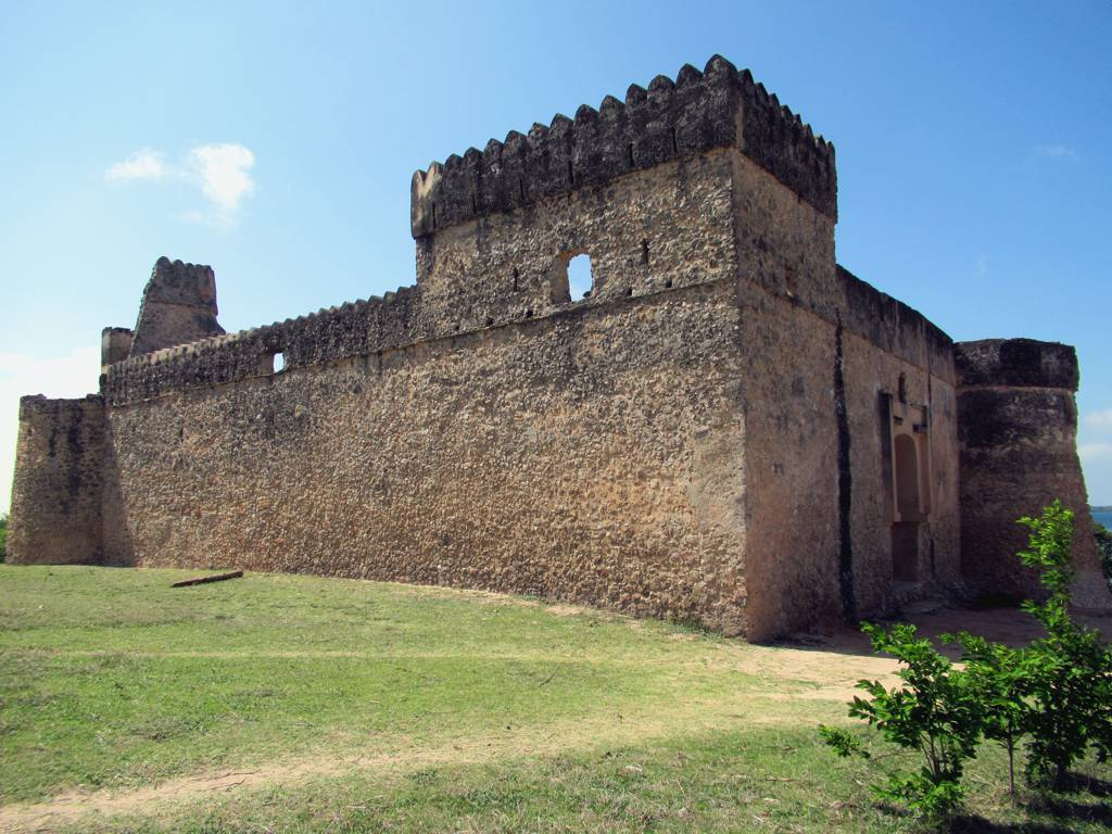 The Gereza Kilwa Fort on Kilwa Kisiwani Island, Tanzania, was built by the Portuguese in 1505 and reconstructed by Omani Arabs after 1512. The name comes from the Portuguese "igreja" (church) which later came to mean "prison" in Swahili.